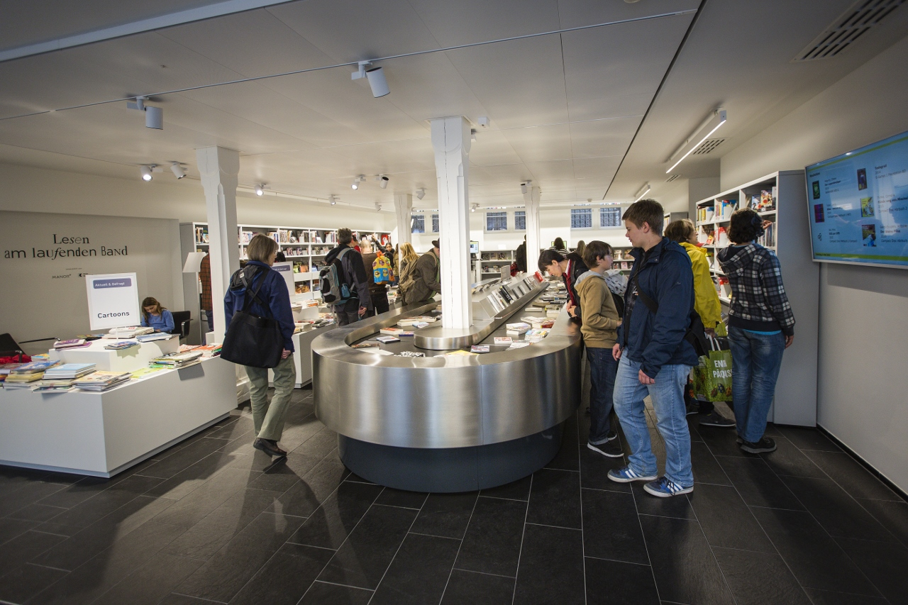 GGG City Library of Basel, Library Schmiedenhof, interior view, first floor